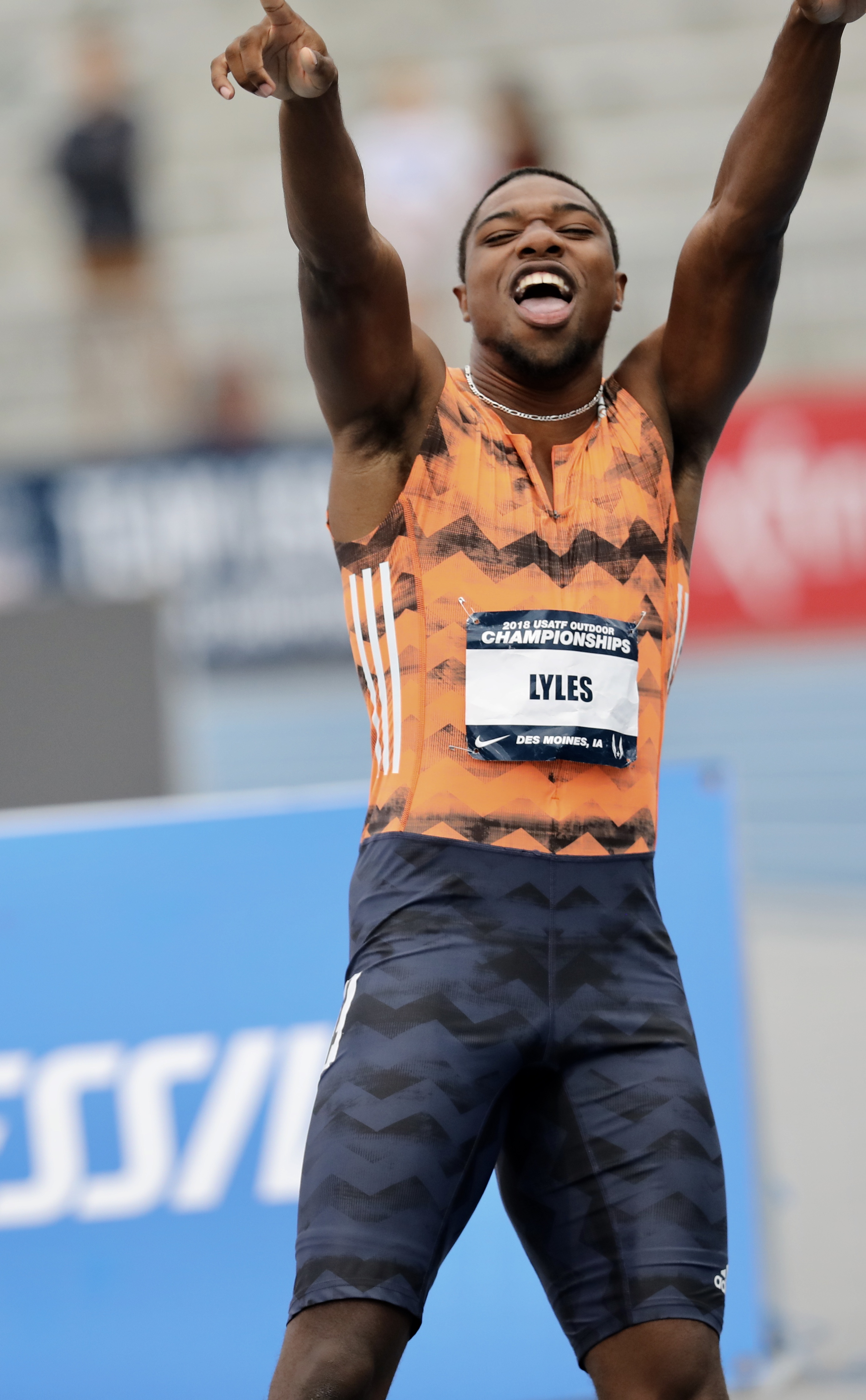 2018 USA Outdoor Track and Field Championships